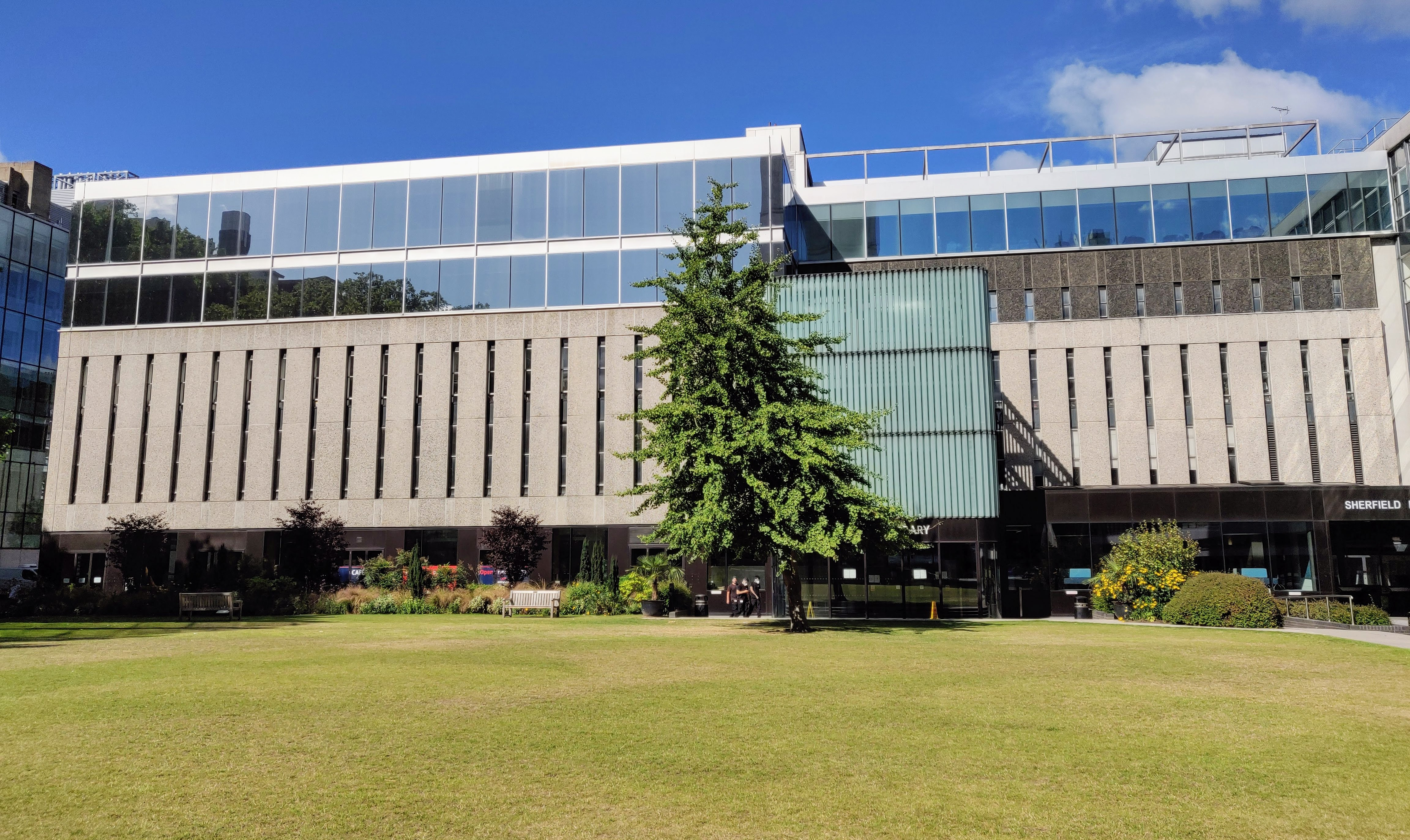 The Central Library of Imperial College London overlooks Queen's Lawn. The middle two floors date from the construction of the building in 1969, whereas extension of the ground floor (visible) and the top two floors are from a later renovation in the late 1990s.